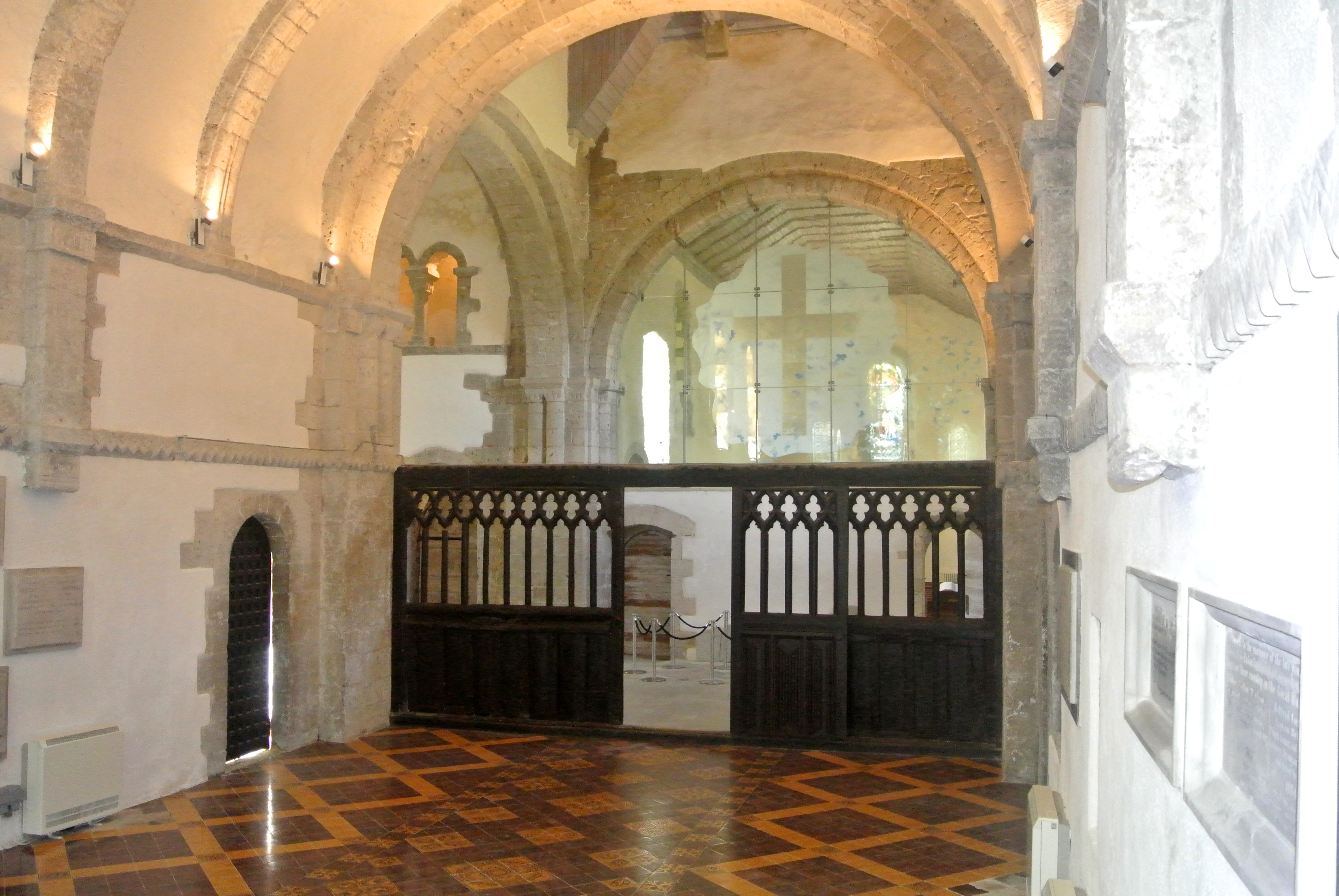 Ewenny Priory interior, southern Wales.